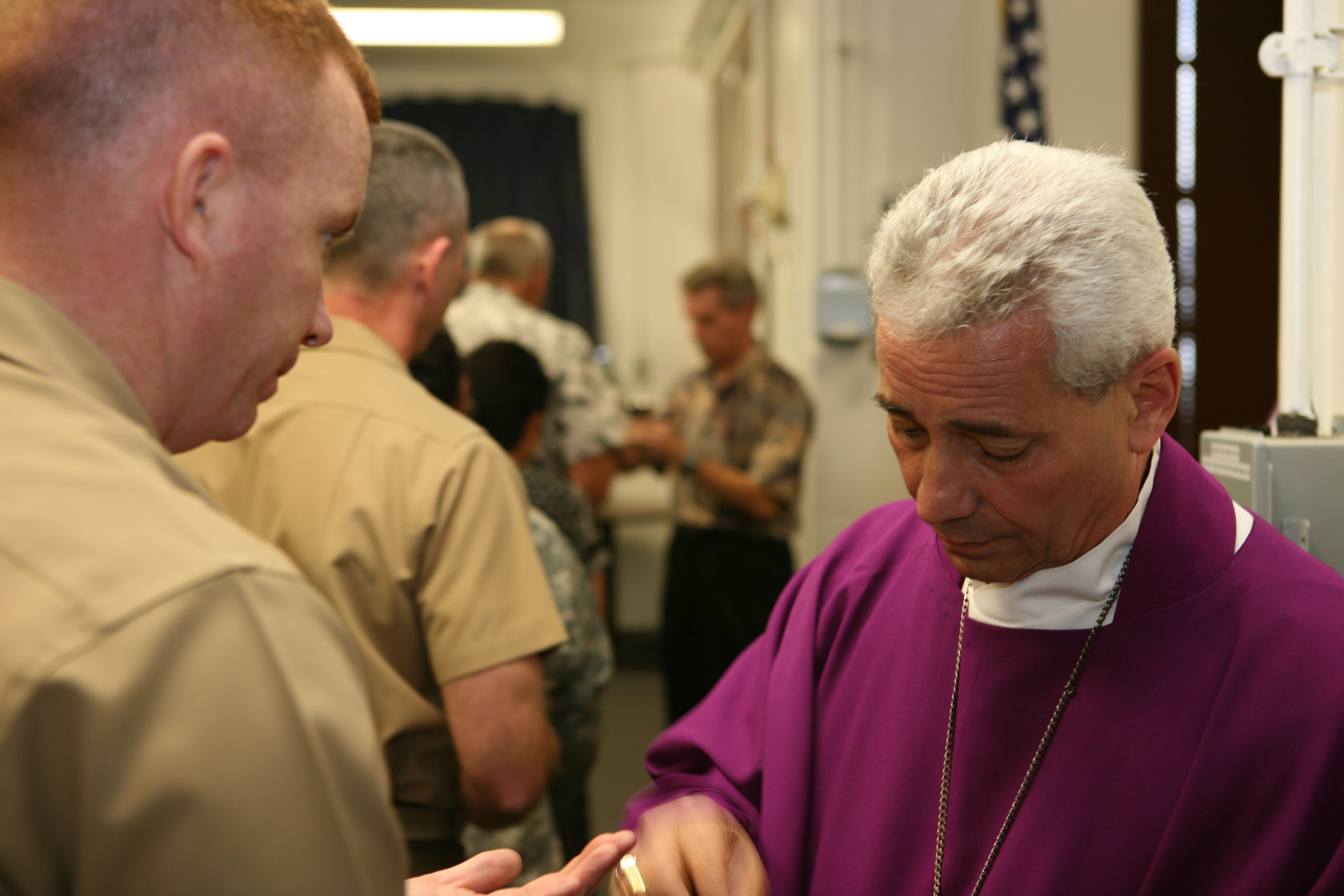 CAMP H.M. SMITH, Hawaii -- Most Reverend Joseph W. Estabrook, D.D., Auxiliary Bishop of the Archdiocese for the Military Services, offers Lt. Col. Andrew Regan communion during Roman Catholic mass, Feb. 15 in the chapel here. The bishop met with chaplains and some commanders from each service to hear service members' concerns before beginning a Pacific-region tour. He is scheduled to visit troops and local Roman Catholic churches in Singapore, Okinawa, Guam and Korea.